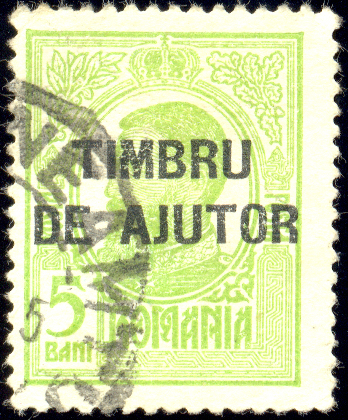 Used Romania stamp, 1915-1916, war tax overprint, 5 bani.